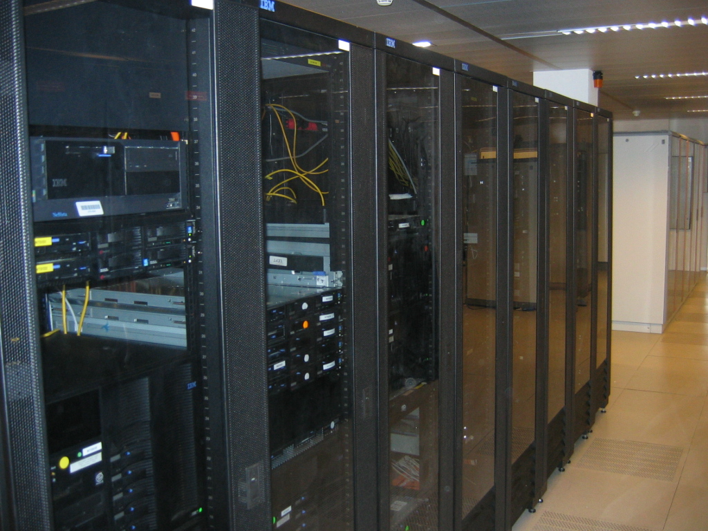 Rack of computers in a datacenter. Wil Weterings